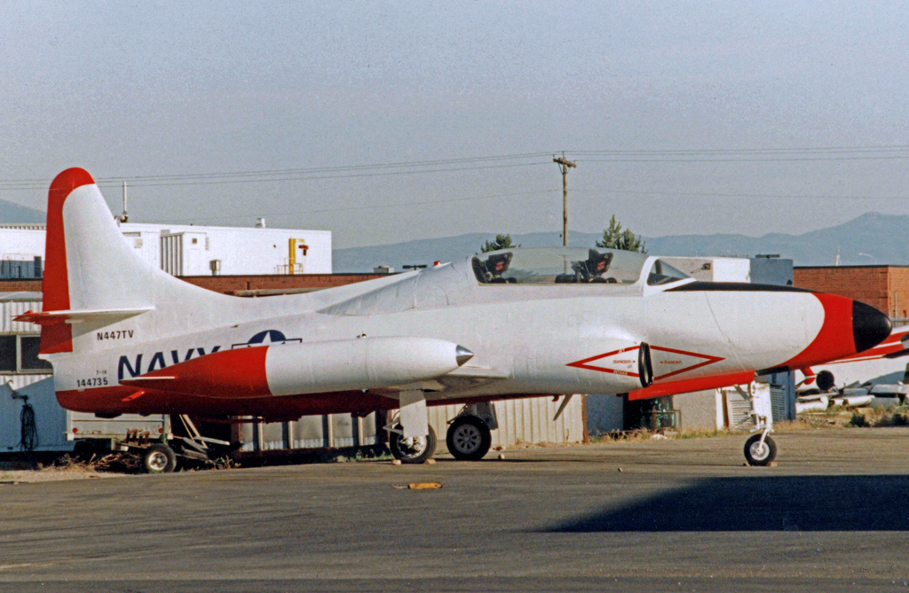 Lockheed T-1A (T2V-1) Seastar N447TV at Salt Lake City International Airport in 1994.